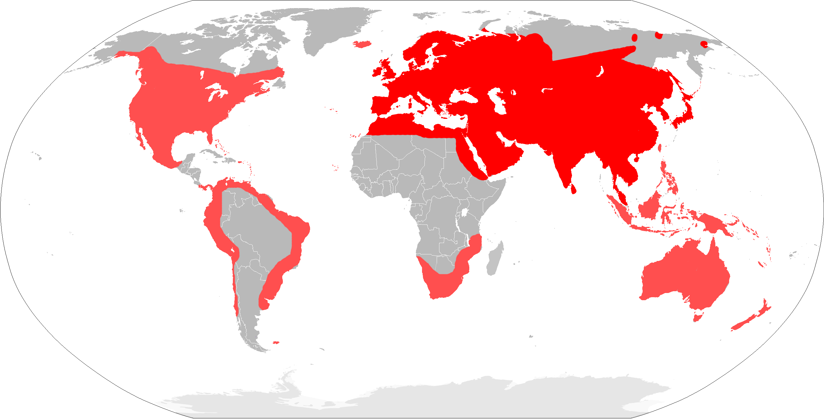 Distribution map of Mus musculus. Autochtonic Introduced